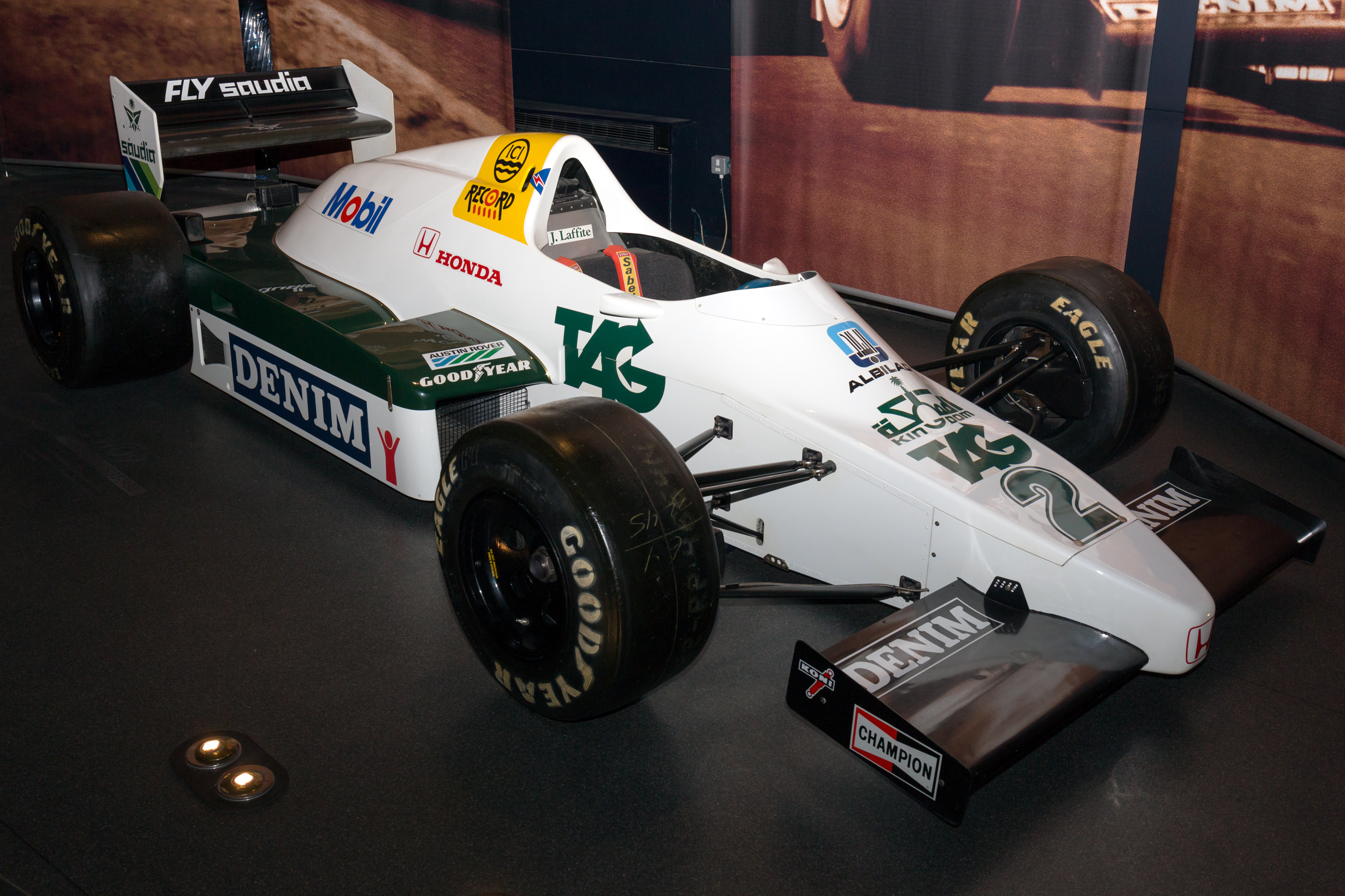 Williams Conference Centre (Grove): Williams FW08C of Jacques Laffite at the 1983 South African Grand Prix